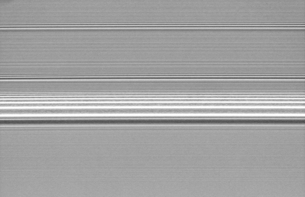 Several spiral density waves in Saturn's A ring are seen in this detailed view. There is a grainy texture visible between the brightness peaks in the most prominent wave. Scientists think the graininess might be indicative of self-gravitating clumps of material that are formed by the spiraling wave. Downward in the image represents the direction toward Saturn. This view looks toward the lit side of the rings from about 42 degrees below the ringplane. The image was taken in visible light with the Cassini spacecraft wide-angle camera on Nov. 8, 2006. Cassini was then at a distance of approximately 300,000 kilometers (200,000 miles) from Saturn and at a Sun-Saturn-spacecraft, or phase, angle of 27 degrees. Image scale is 1 kilometer (4,580 feet) per pixel. The Cassini-Huygens mission is a cooperative project of NASA, the European Space Agency and the Italian Space Agency. The Jet Propulsion Laboratory, a division of the California Institute of Technology in Pasadena, manages the mission for NASA's Science Mission Directorate, Washington, D.C. The Cassini orbiter and its two onboard cameras were designed, developed and assembled at JPL. The imaging operations center is based at the Space Science Institute in Boulder, Colo. For more information about the Cassini-Huygens mission visit The Cassini imaging team homepage is at The original NASA image has been modified by cropping.